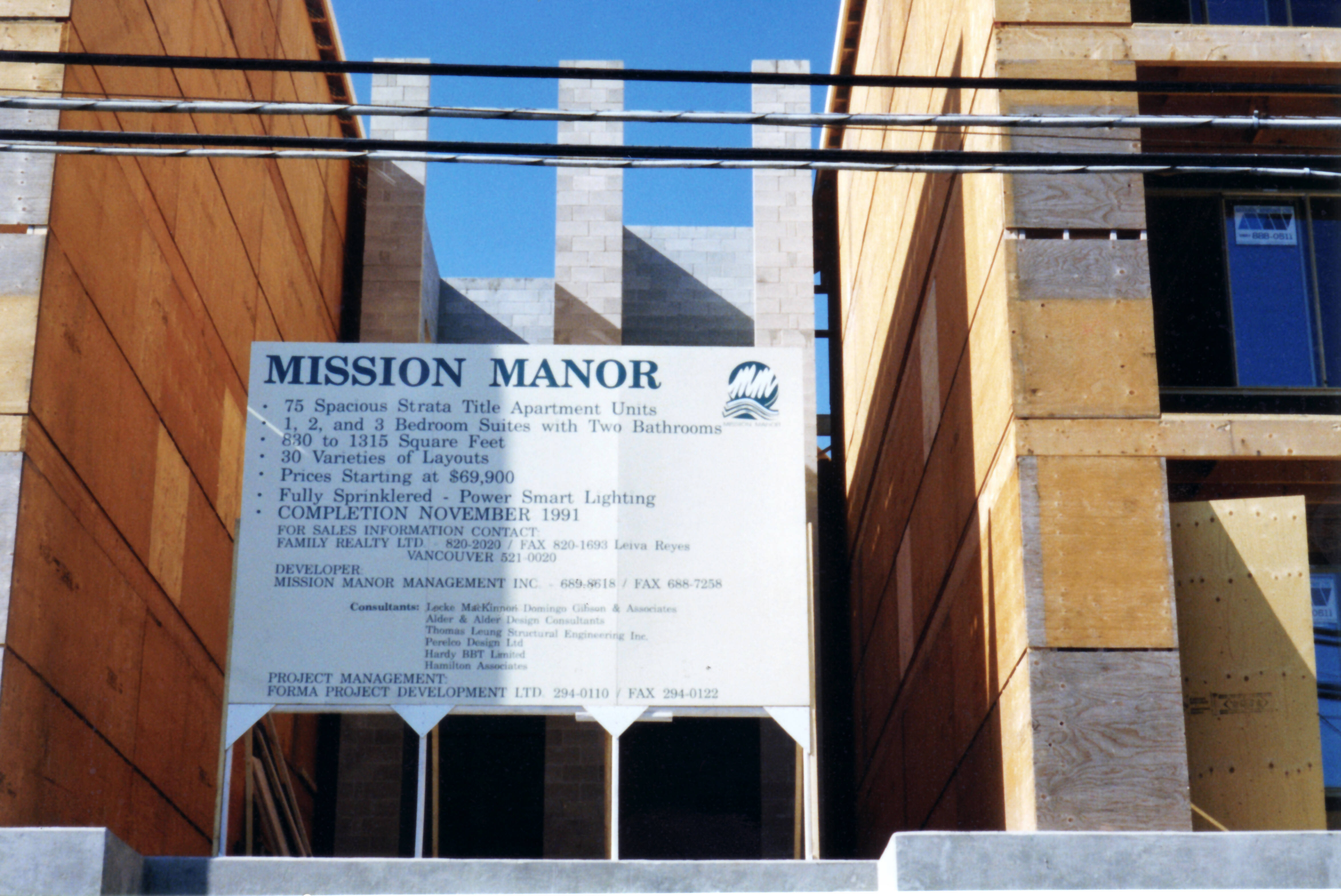 Mission Manor, Construction Sign, Mission, British Columbia, Canada